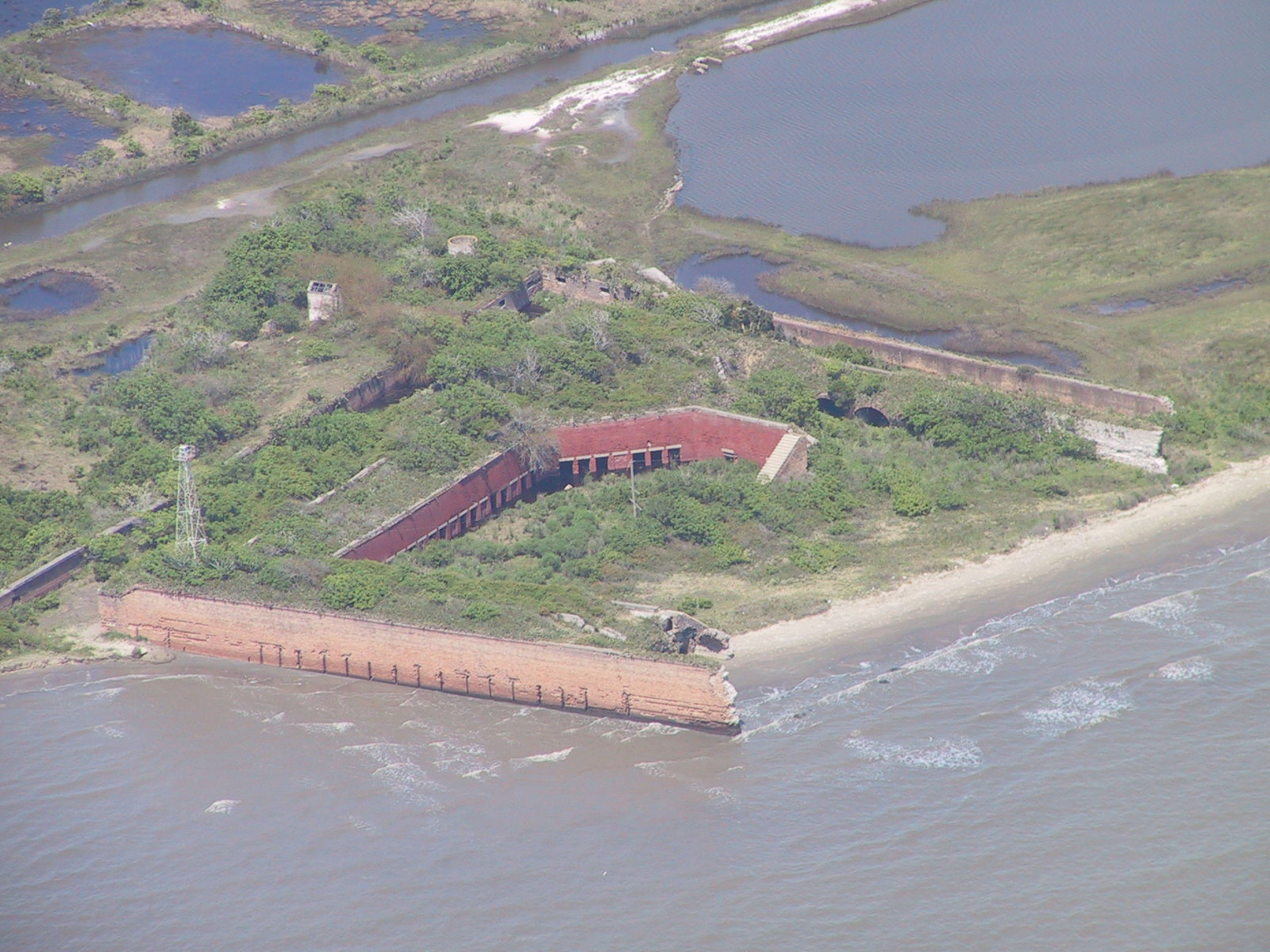 Fort Livingston, Grand Terre Island, Louisiana, April 2002